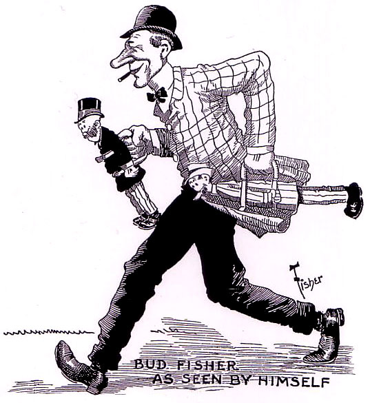 Self caricature of cartoonist Bud Fisher with his creations Mutt and Jeff